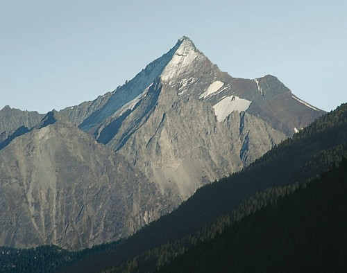 Grivola Picture taken and edited by user Idefix august 25, 2006